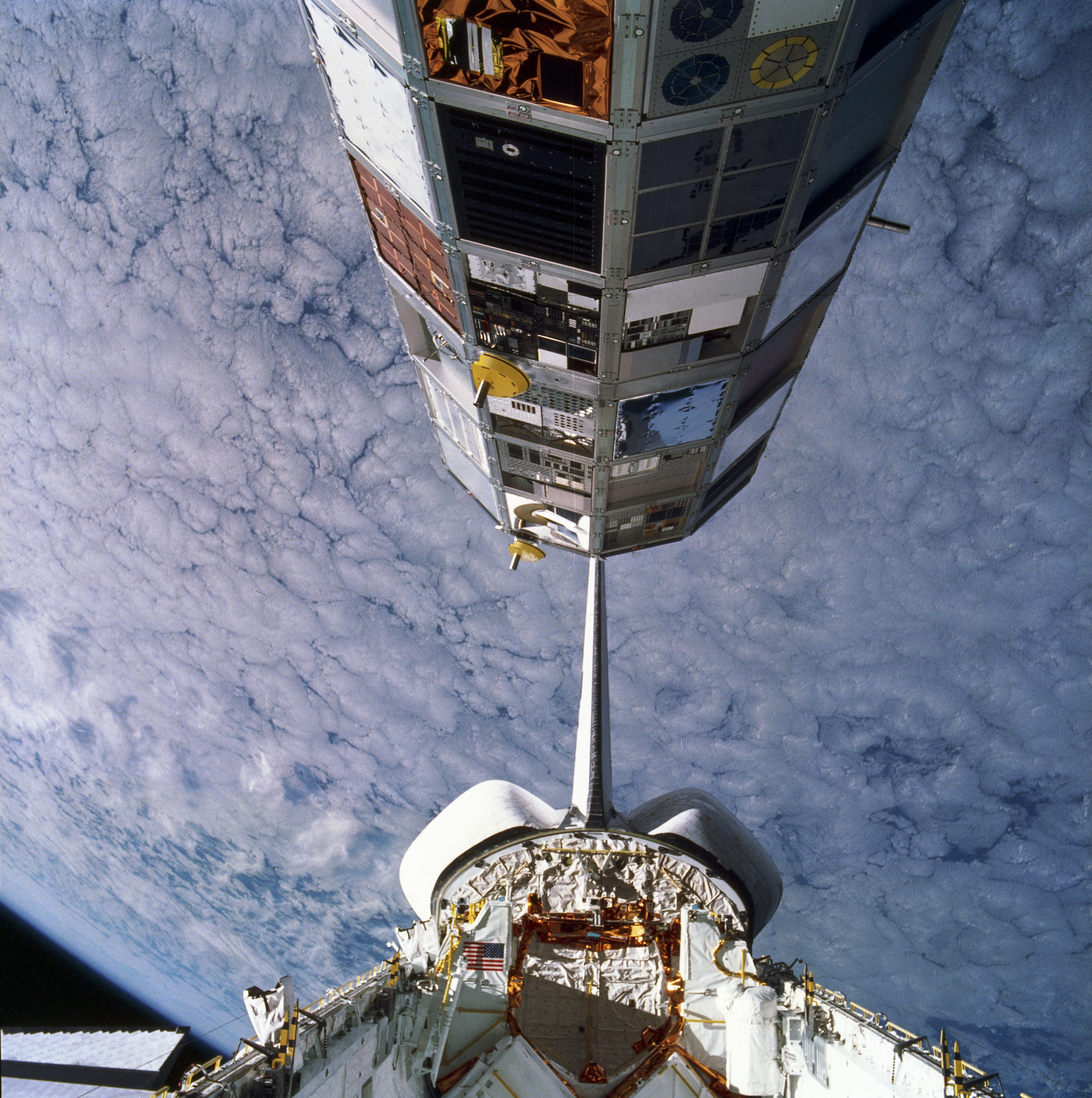 This is an onboard photo of the deployment of the Long Duration Exposure Facility (LDEF) from the cargo bay of the Space Shuttle Orbiter Challenger STS-41C mission, April 7, 1984. After a five year stay in space, the LDEF was retrieved during the STS-32 mission by the Space Shuttle Orbiter Columbia in January 1990 and was returned to Earth for close examination and analysis. The LDEF was designed by the Marshall Space Flight Center (MSFC) to test the performance of spacecraft materials, components, and systems that have been exposed to the environment of micrometeoroids, space debris, radiation particles, atomic oxygen, and solar radiation for an extended period of time. Proving invaluable to the development of both future spacecraft and the International Space Station (ISS), the LDEF carried 57 science and technology experiments, the work of more than 200 investigators, 33 private companies, 21 universities, 7 NASA centers, 9 Department of Defense laboratories, and 8 foreign countries.